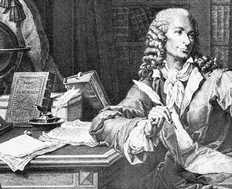 Voltaire at his desk with a pen in his hand. Engraving by Baquoy, ca. 1795. Image has been cropped to remove a purple border.